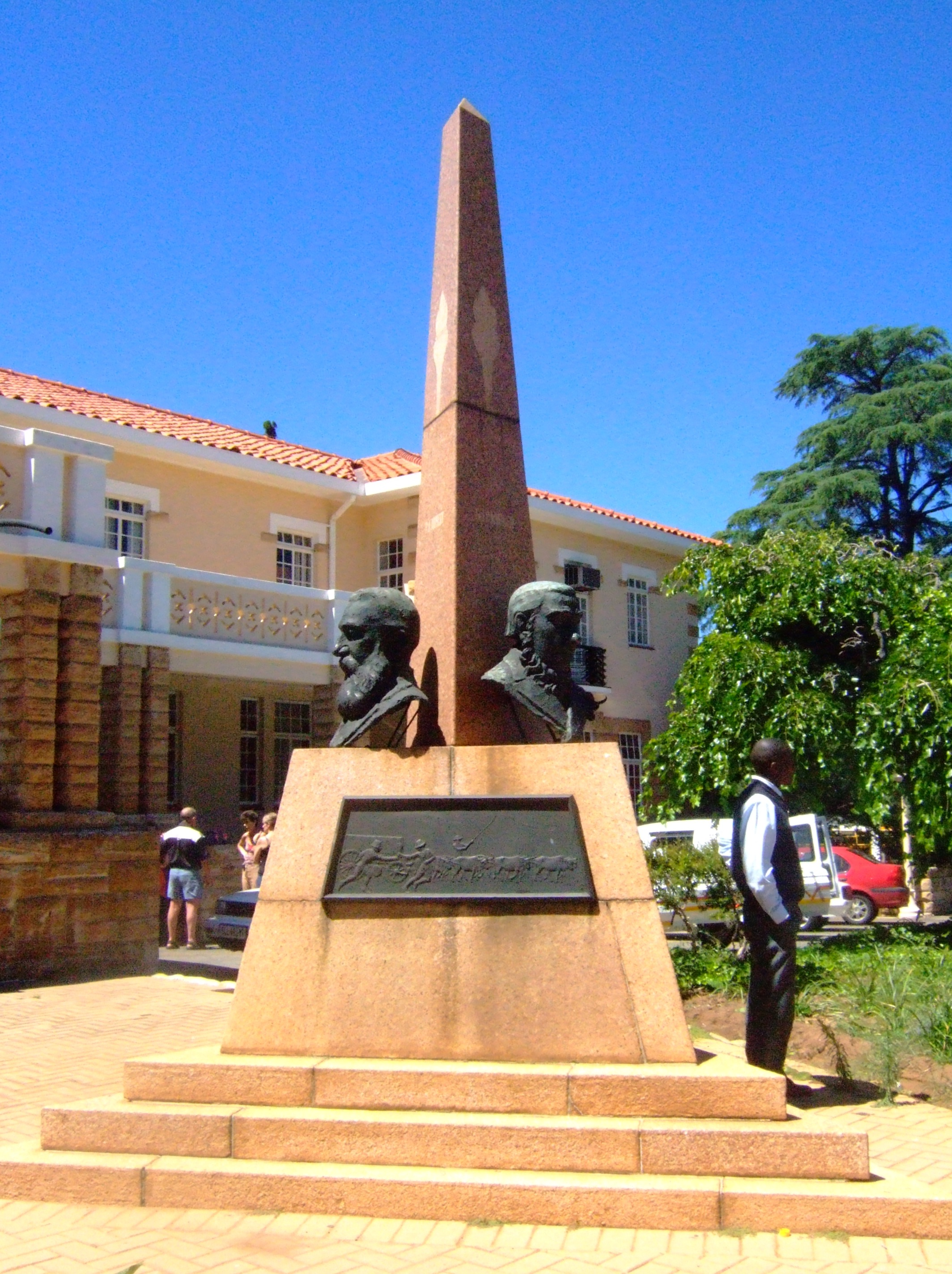 In front of the Heidelberg city hall, Gauteng, South Africa